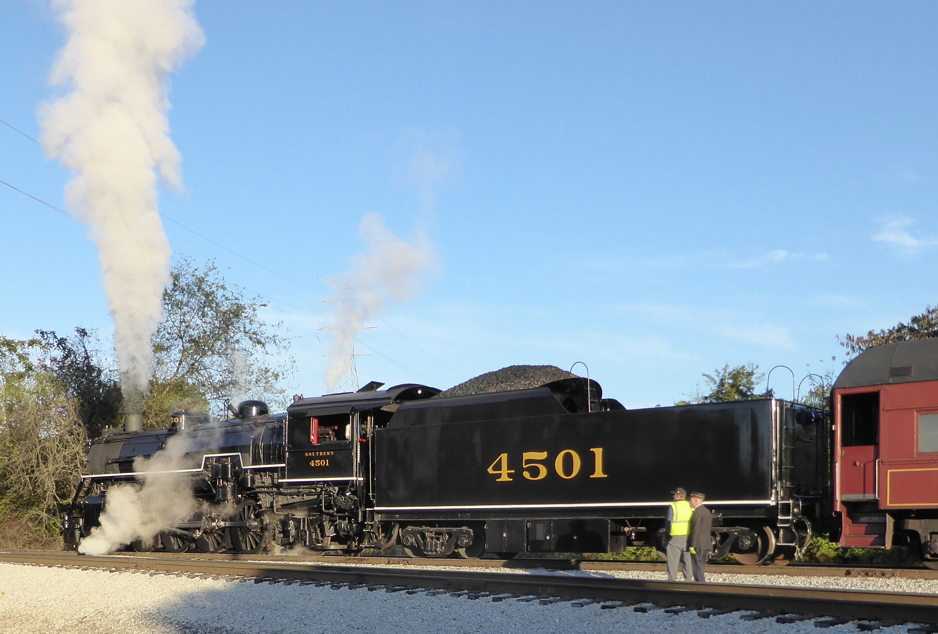 Southern 4501 at Tennessee Valley Railroad Museum, October 4, 2014.